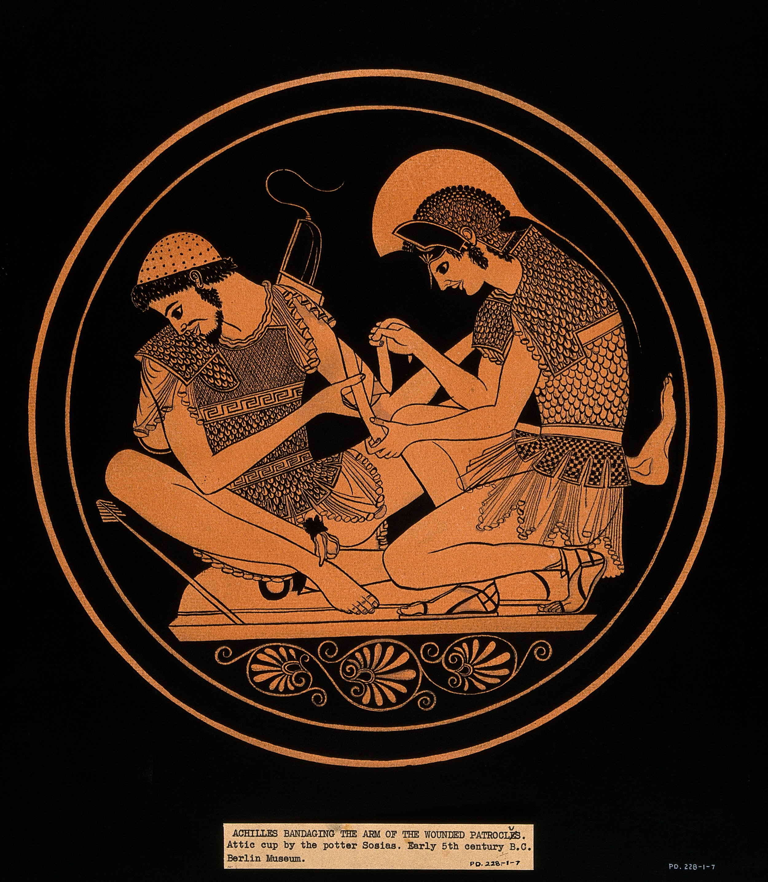 Achilles bandaging Patroclus's wounded arm. Ink drawing after an Attic cup by the potter Sosias, c. 500 B.C. Iconographic Collections Keywords: Sosias; Achilles